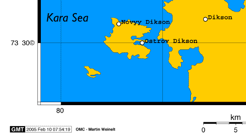 Map of Dikson I used to create this map. Coordinates for towns used were: 80.7111,73.5333,Dikson 80.2850,73.5267,Novyy Dikson 80.4,73.50,Ostrov Dikson